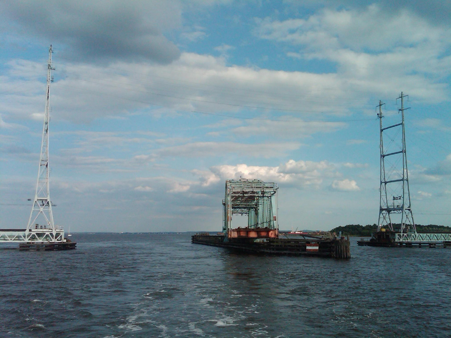 The Raritan Bay Bridge, located in Middlesex County, New Jersey, is seen in the open position, having just allowed commercial marine traffic to begin moving upstream from Raritan Bay into the lower Raritan River.